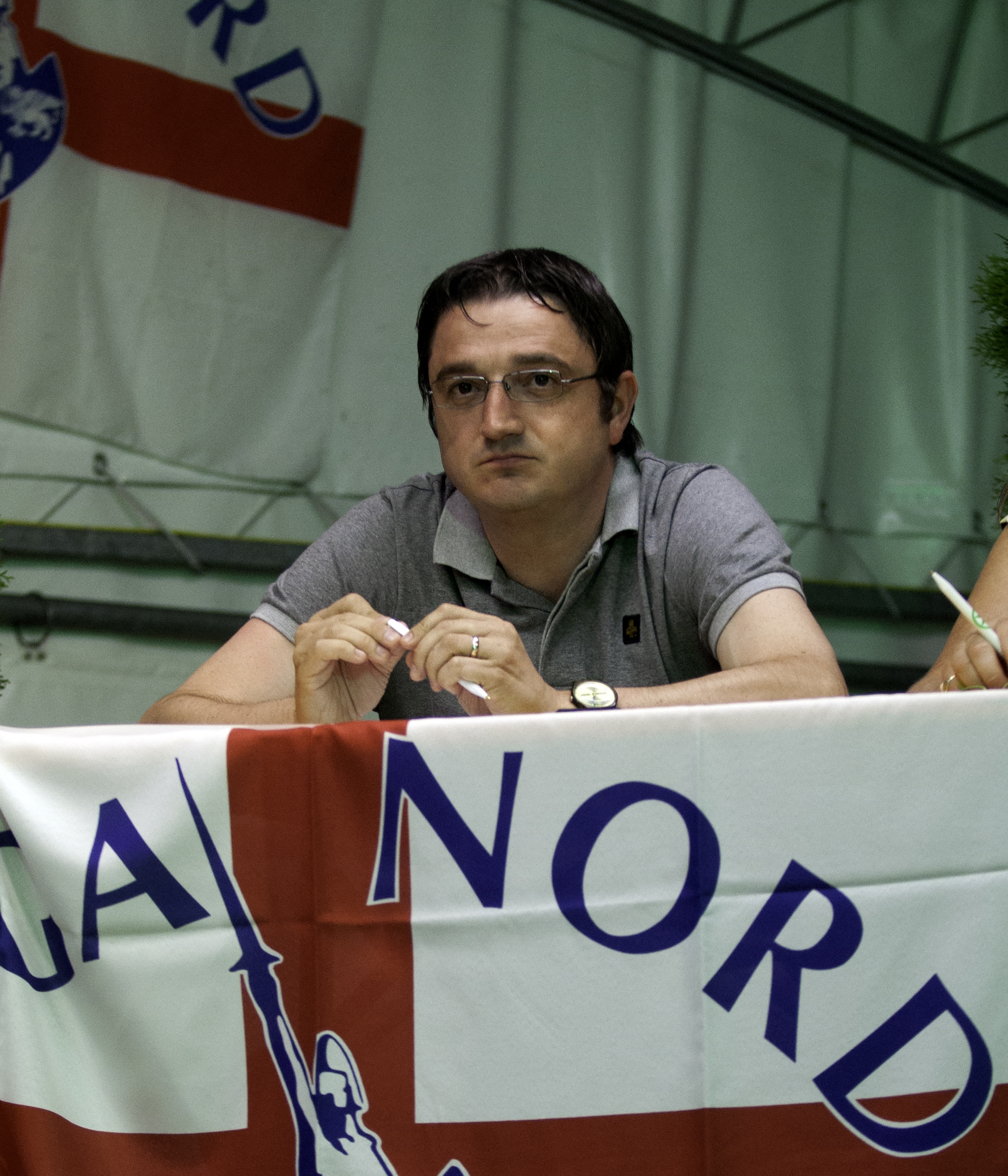 Maurizio Fugatti is an Italian Politician of Lega Nord (Northen League), a leftwing and separatist party